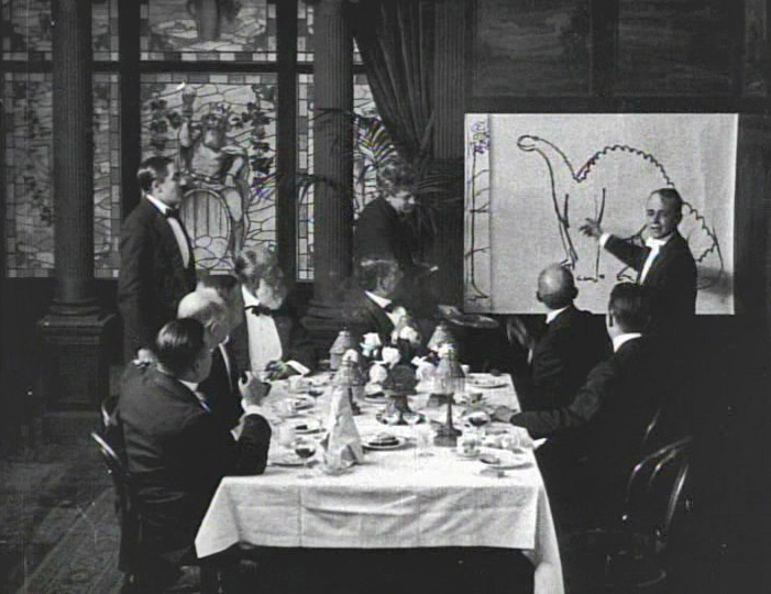 Winsor McCay sketching at a dinner party in a still from the film Gertie the Dinosaur (1914)